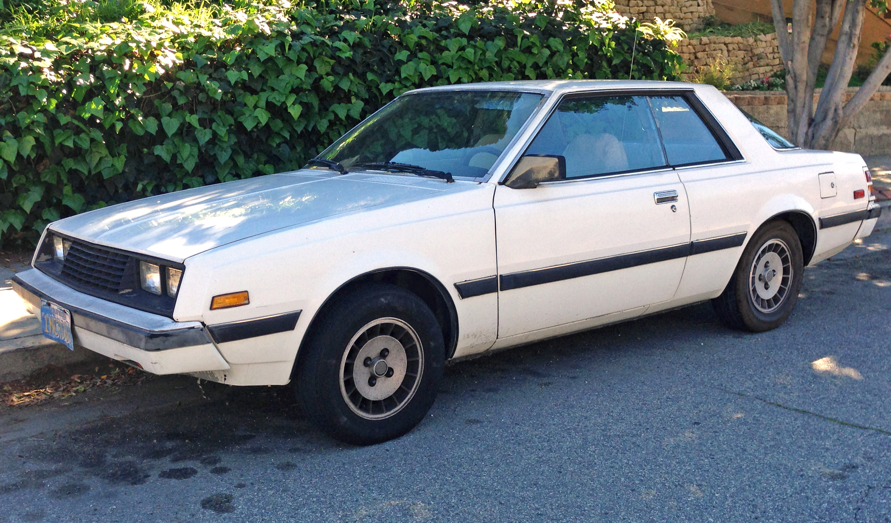 A 1981 Dodge Challenger X. This rebadged Galant Lambda is a facelift model with the redesigned body and a more sporting appearance. Still on original (presumably) California blue-and-gold plates!